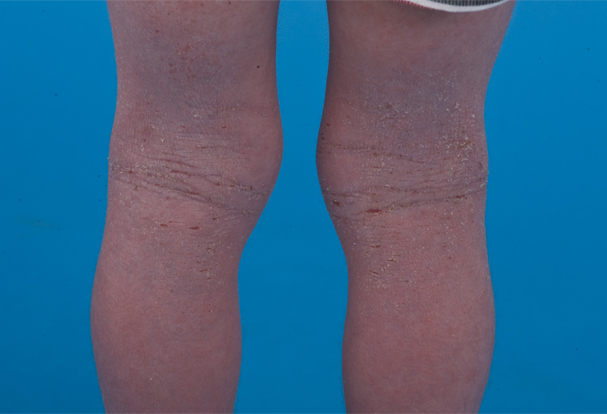 Eczema, also known as atopic dermatitis, is a chronic condition that causes the skin to become extremely itchy. Persistent scratching can lead to redness, blisters that “weep” clear fluid, bleeding, and crusting of certain areas of the skin. People with eczema also can be more susceptible to bacterial, viral, and fungal skin infections. People suffering from severe eczema come to NIH as part of a research program to better understand, prevent, and treat the disease. NIAID scientists evaluate each case and may decide to use wet wrap therapy to bring the condition under control. The researchers also provide training on home-based skin care to help patients and/or their caregivers properly manage flare-ups once they leave the hospital. Credit: NIAID